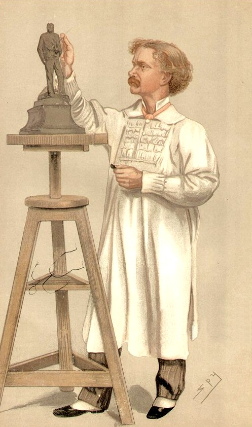 Caricature of William Hamo Thornycroft : "Bronze Statuary"